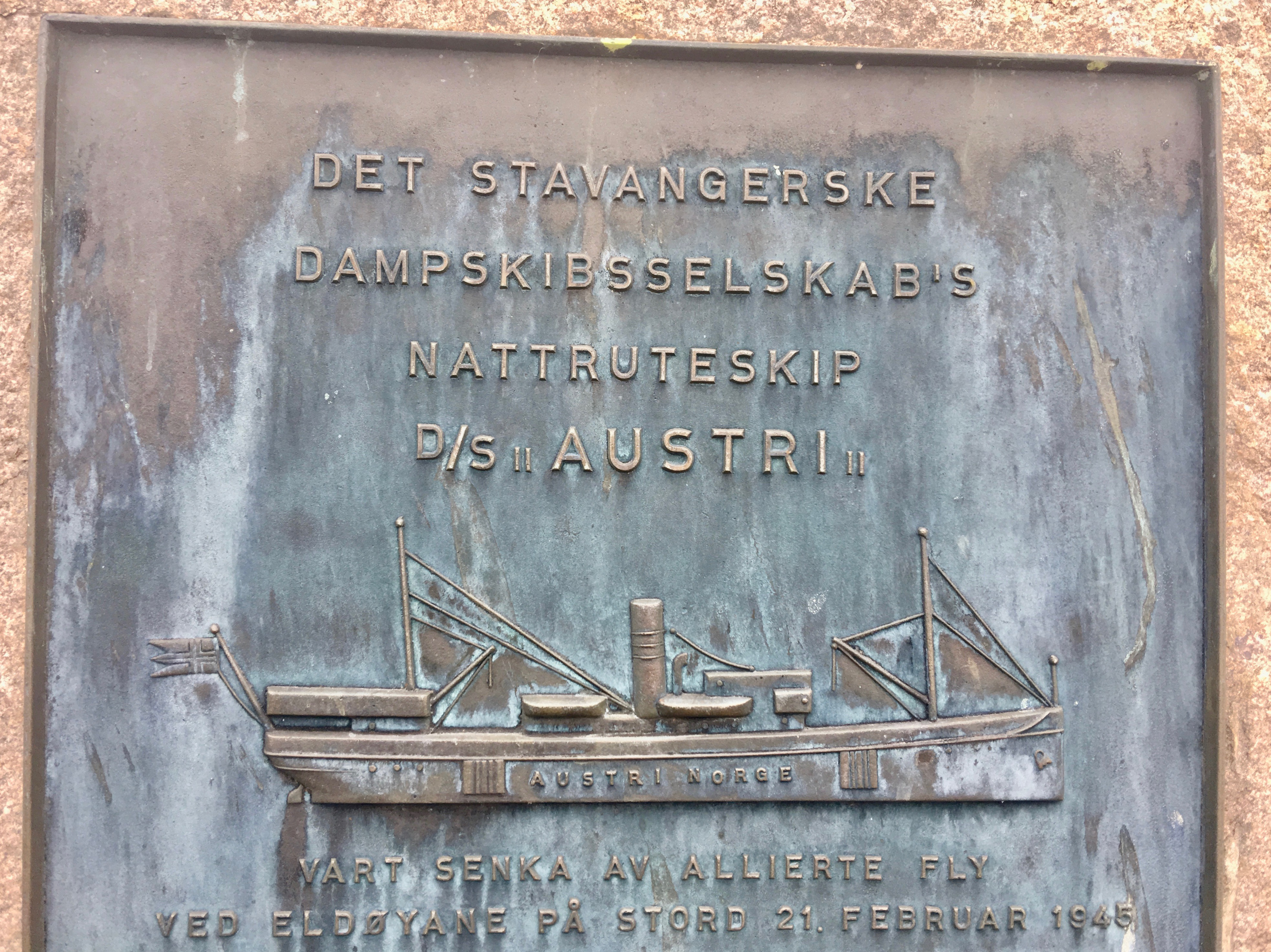 DS Austri Memorial in Nattrutekaien, Leirvik, Stord, Norway. Ship bombed 1945-02-21. Part of plaque.Photo 2018-03-13